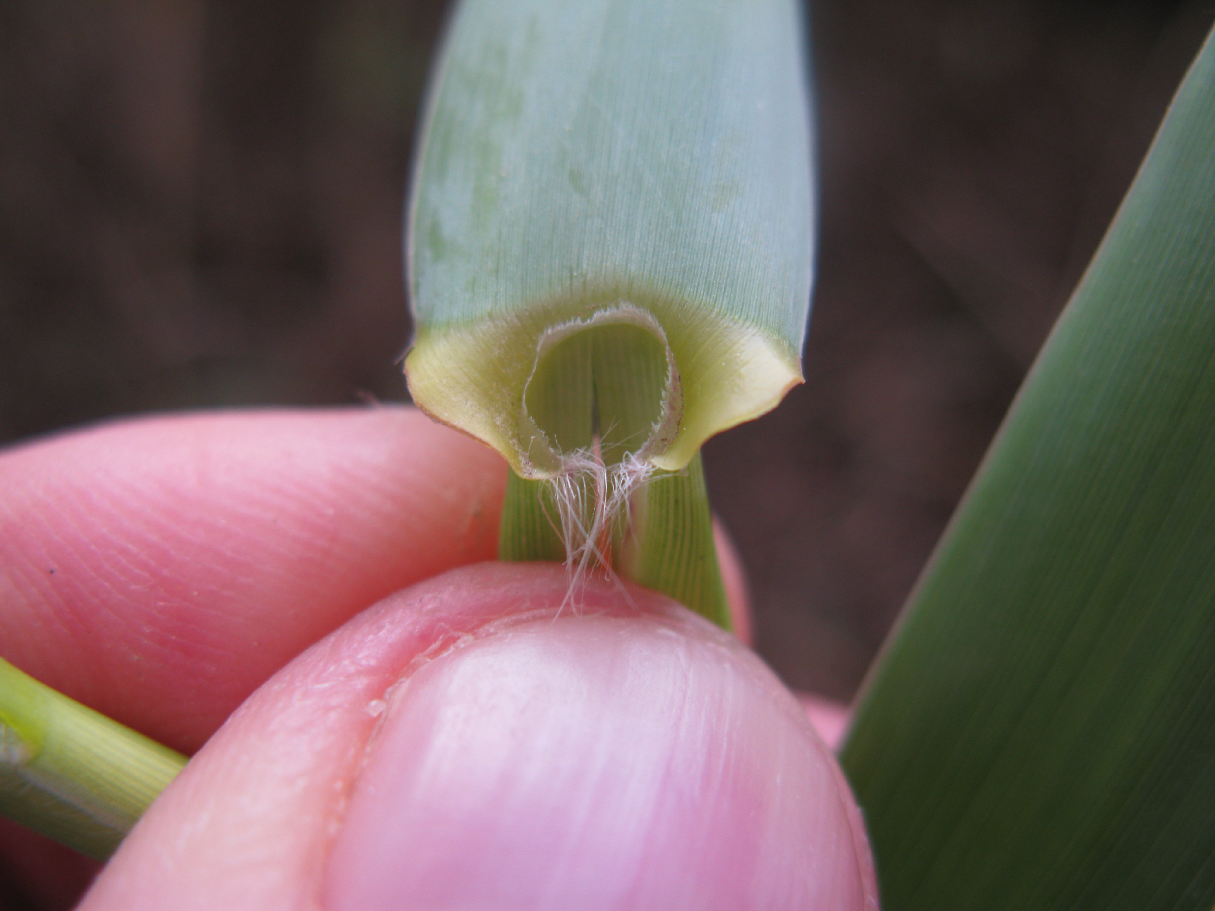 Ligule is membranous with a ciliate fringe